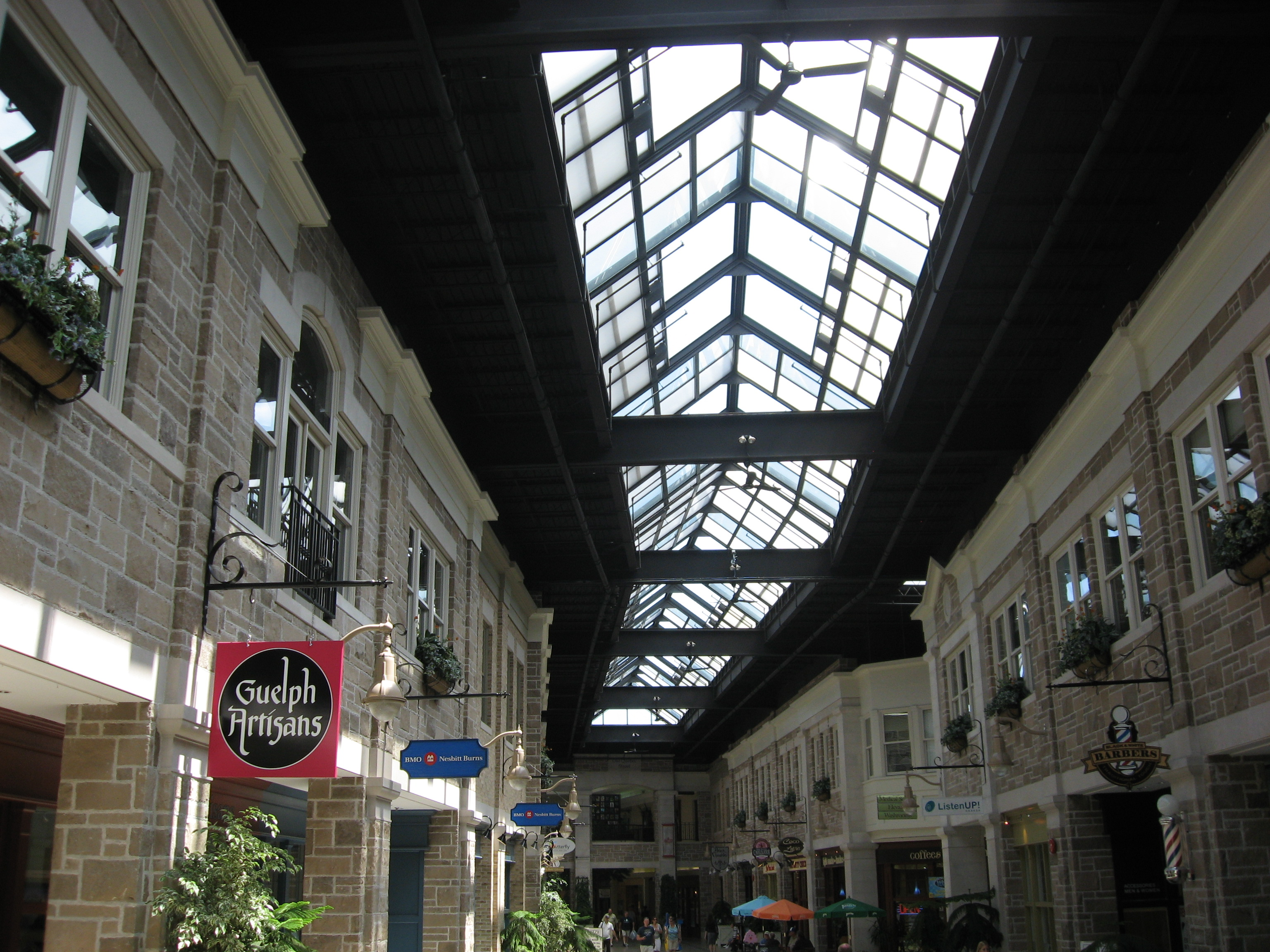 A picture of the skylight in the Old Quebec Street Mall.